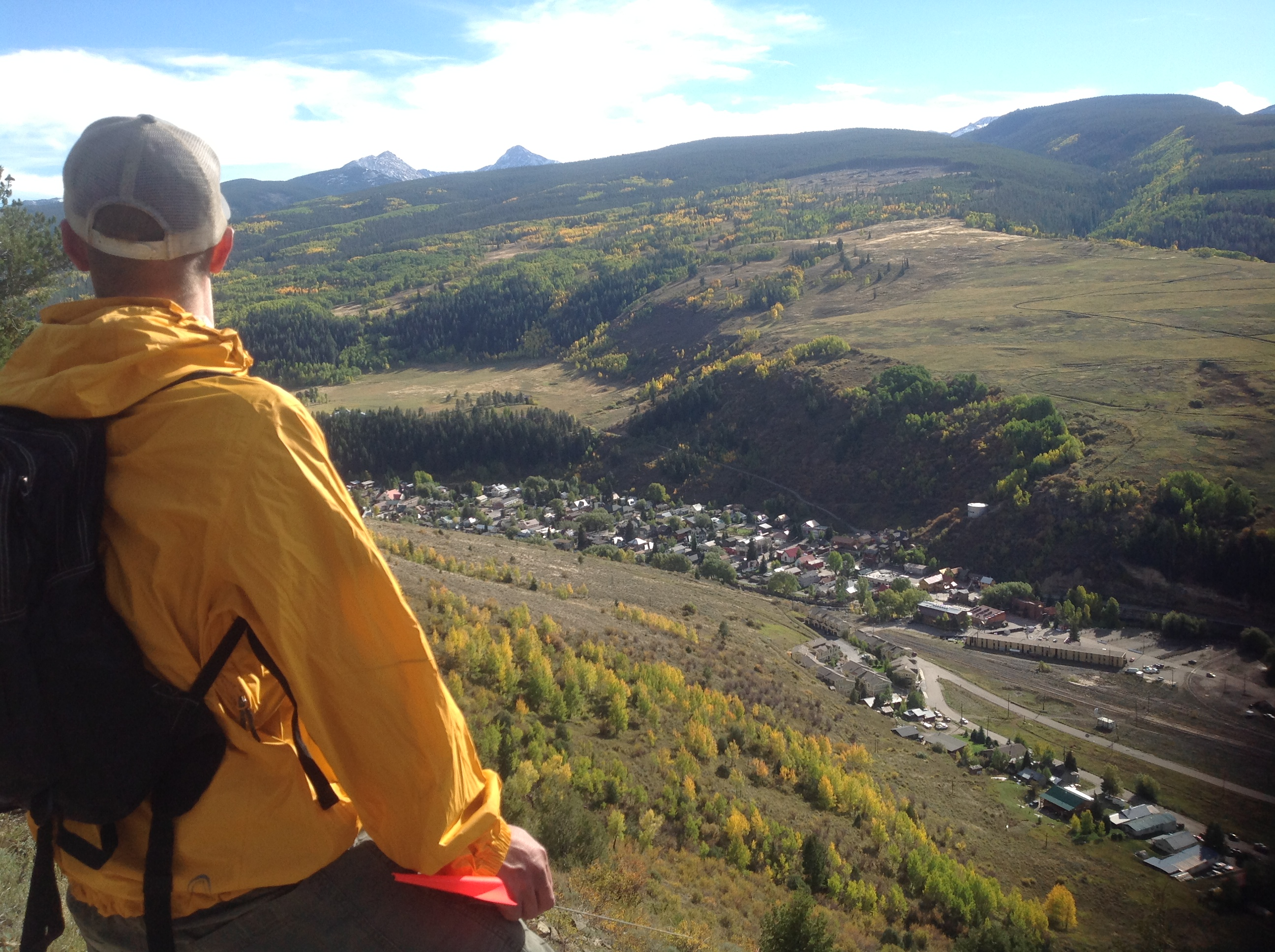 View from Lionshead Rock.